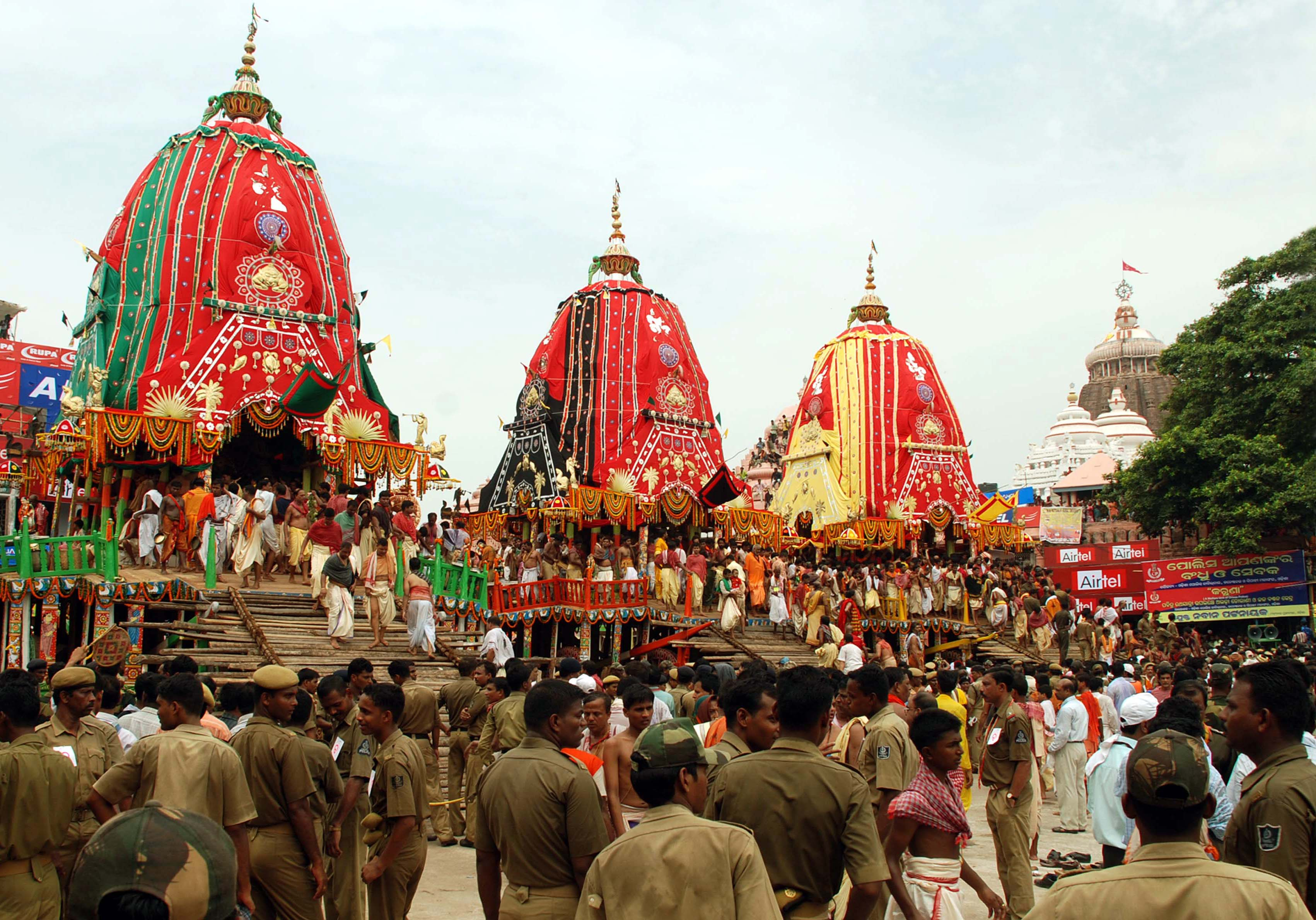 Rath Yatra: The Chariot Festival of Puri, India This media file is uploaded with Odia loves Wikipedia ଓଡ଼ିଆ: ରଥଯାତ୍ରା, ପୁରି, ଓଡିଶା, ଭାରତ